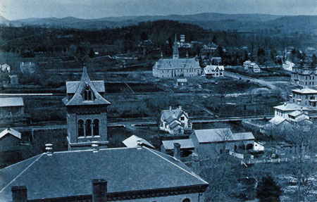 Amherst College in 1875